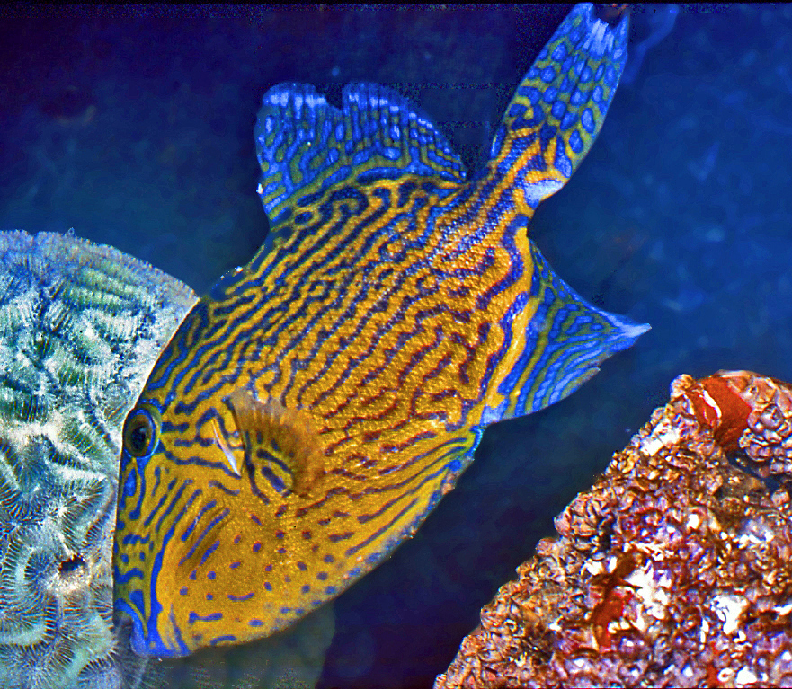 Pseudobalistes fuscus